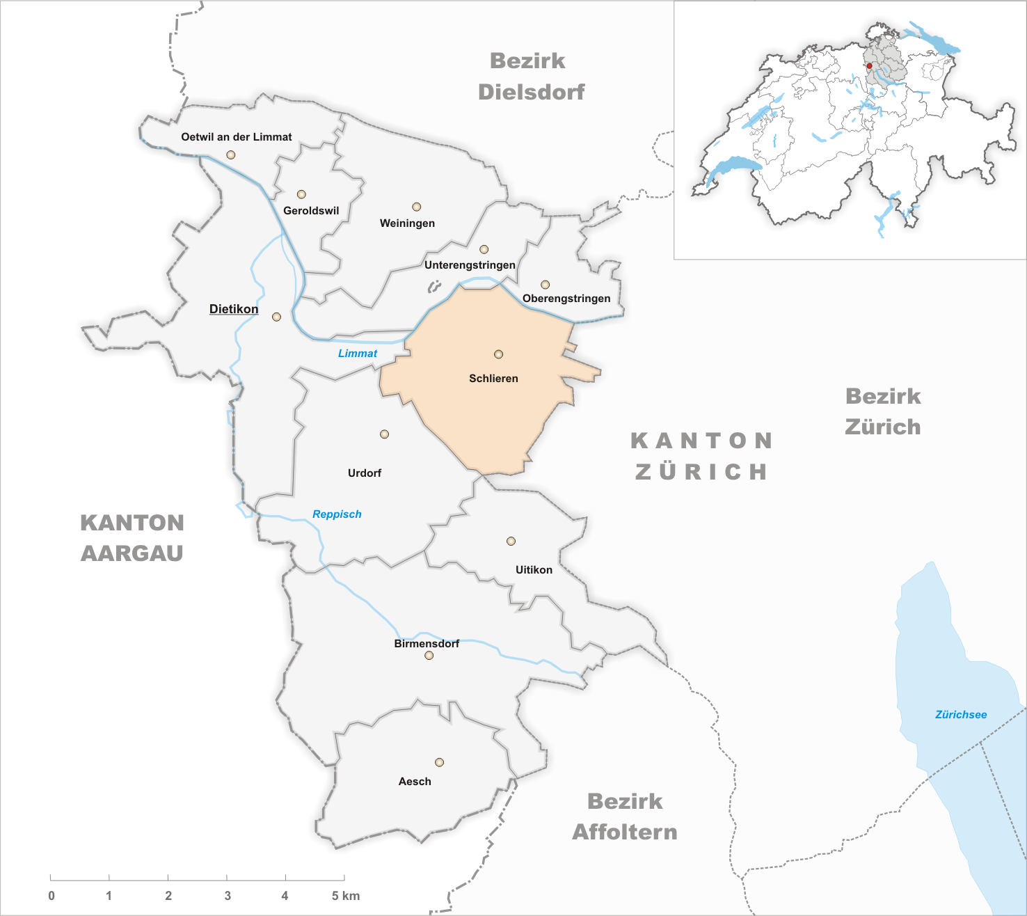 Municipality Schlieren